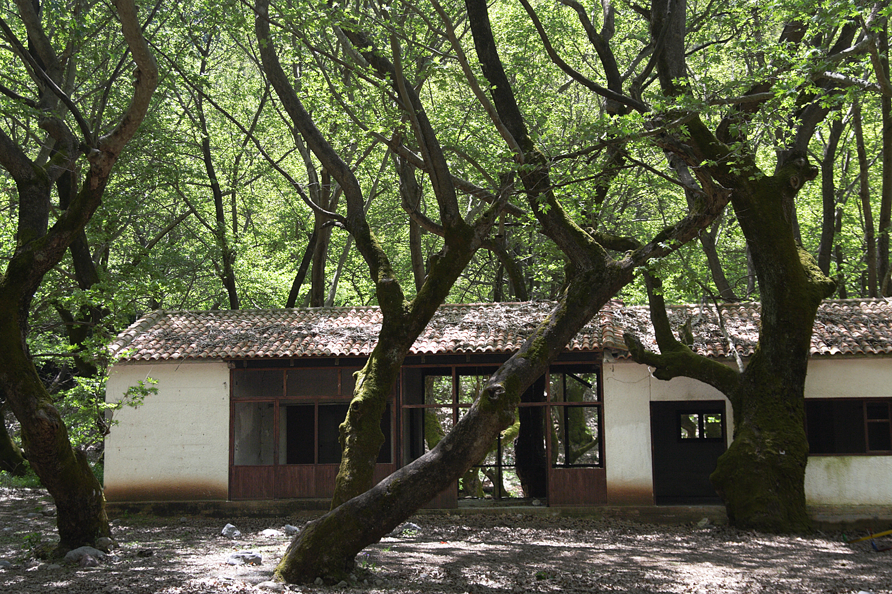 karst springs of river Aroanios (Achaea, Peloponnese). The springs emerge directly from limestone rock or from loose sediment, a ground of sandy gravel, well shaded by a forest of Platanus orientalis. The water comes from the carbonate Aroania Mountains (1500- 2341 m) and also from joints fed by the katavothren (Greek term for ponors/sinkholes) of the Feneos depression. On a surface of only 30x800 m 41 tiny outlets result in a remarkable large brook. Unfortunately this rare kind of a geotope is not suitably protected. The site is dominated by touristic-commercial interests.